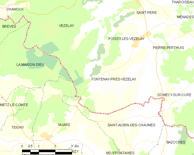 Map of French municipality Fontenay-près-Vézelay